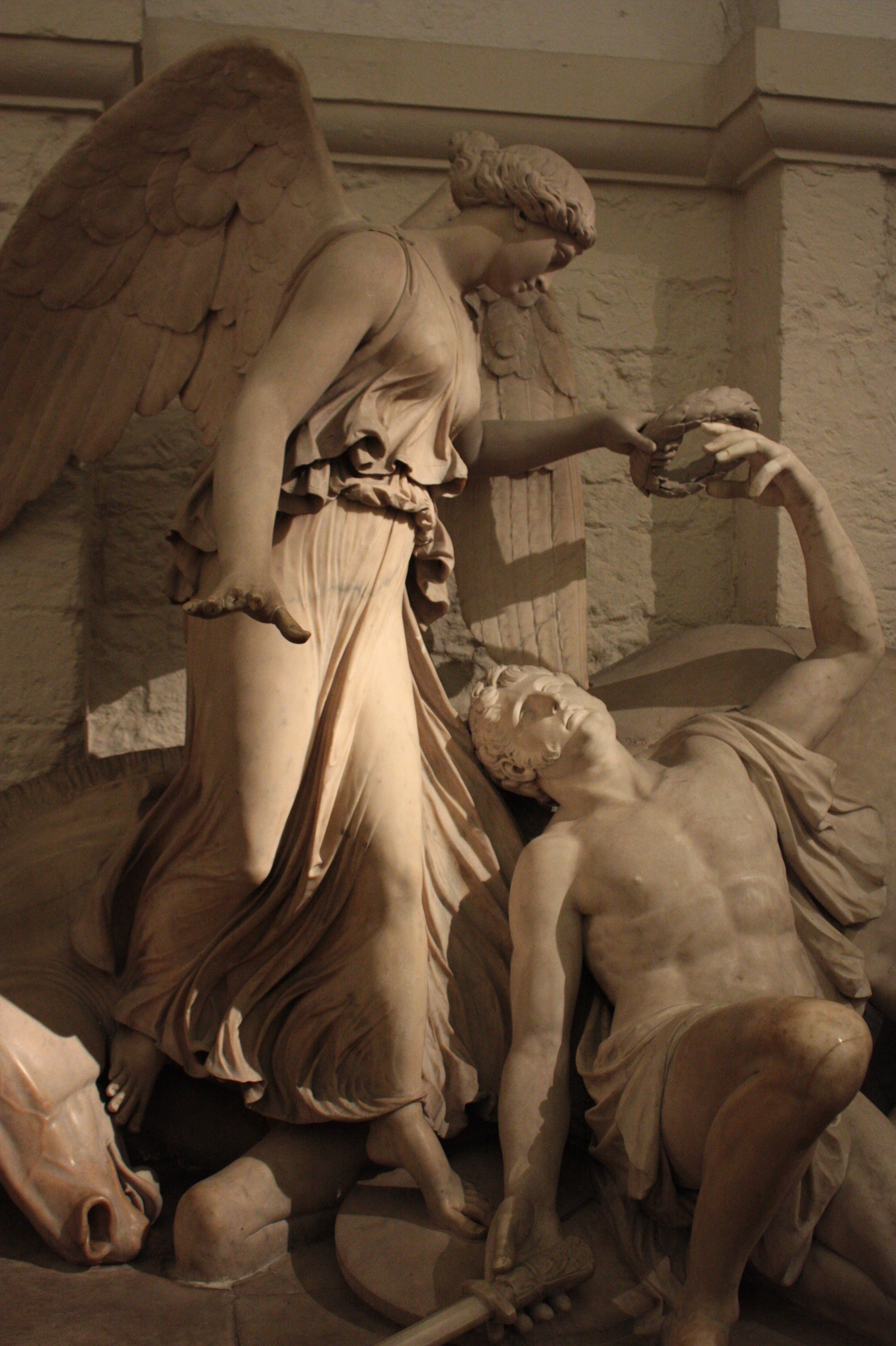 Monument to Major General Ponsonby, the crypt of St Paul's Cathedral